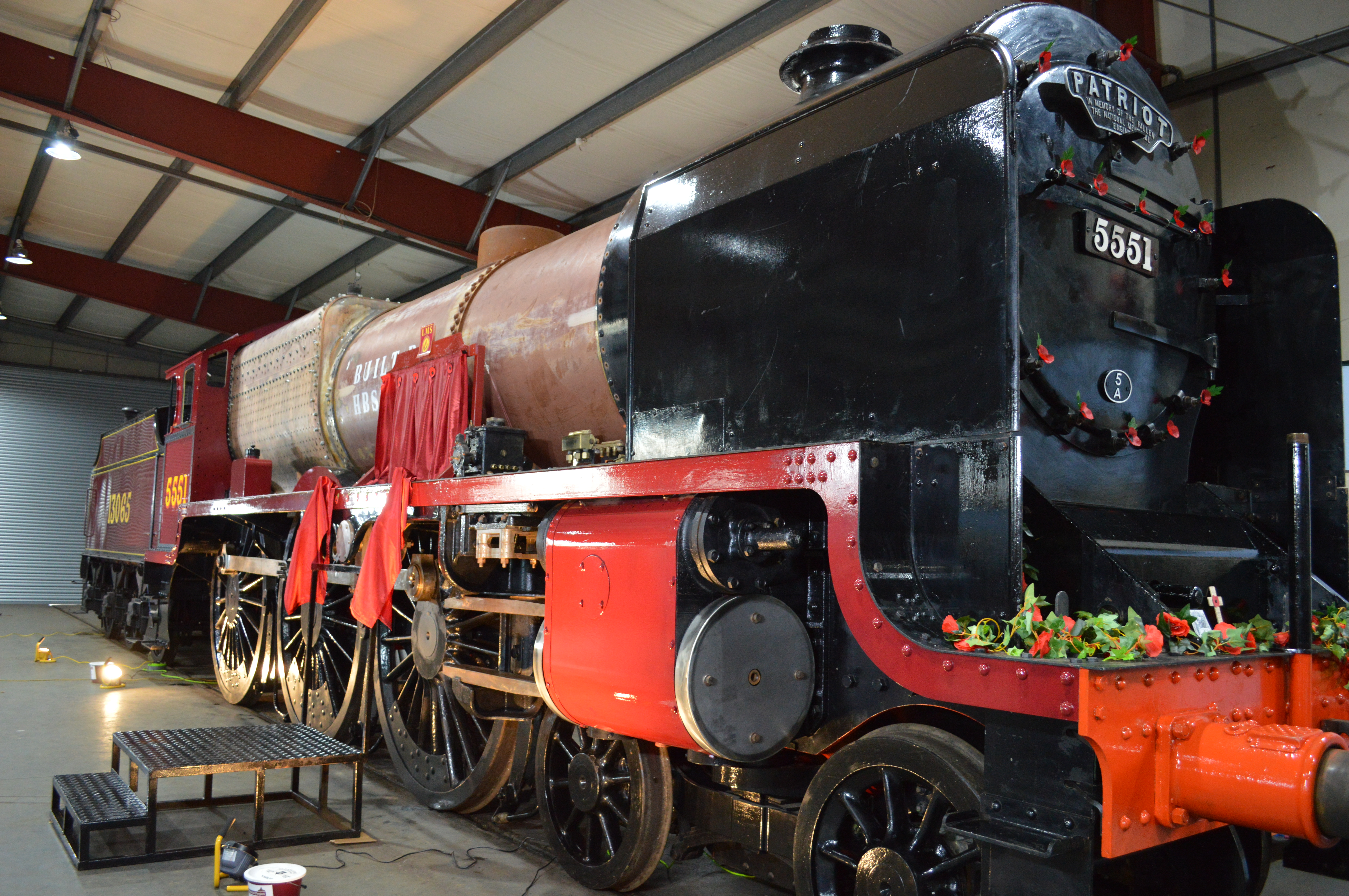 An almost complete looking 5551 inside the shed at Crewe Heritage Centre, on this day she was to have her new crest unveiled. The boiler was fitted temporarily to make sure it fitted perfectly, it would later be returned to the firm which was working on it.